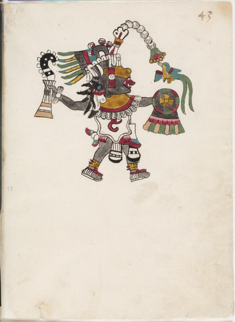 Codex Tudela, Museum of the Americas, Madrid, Spain.